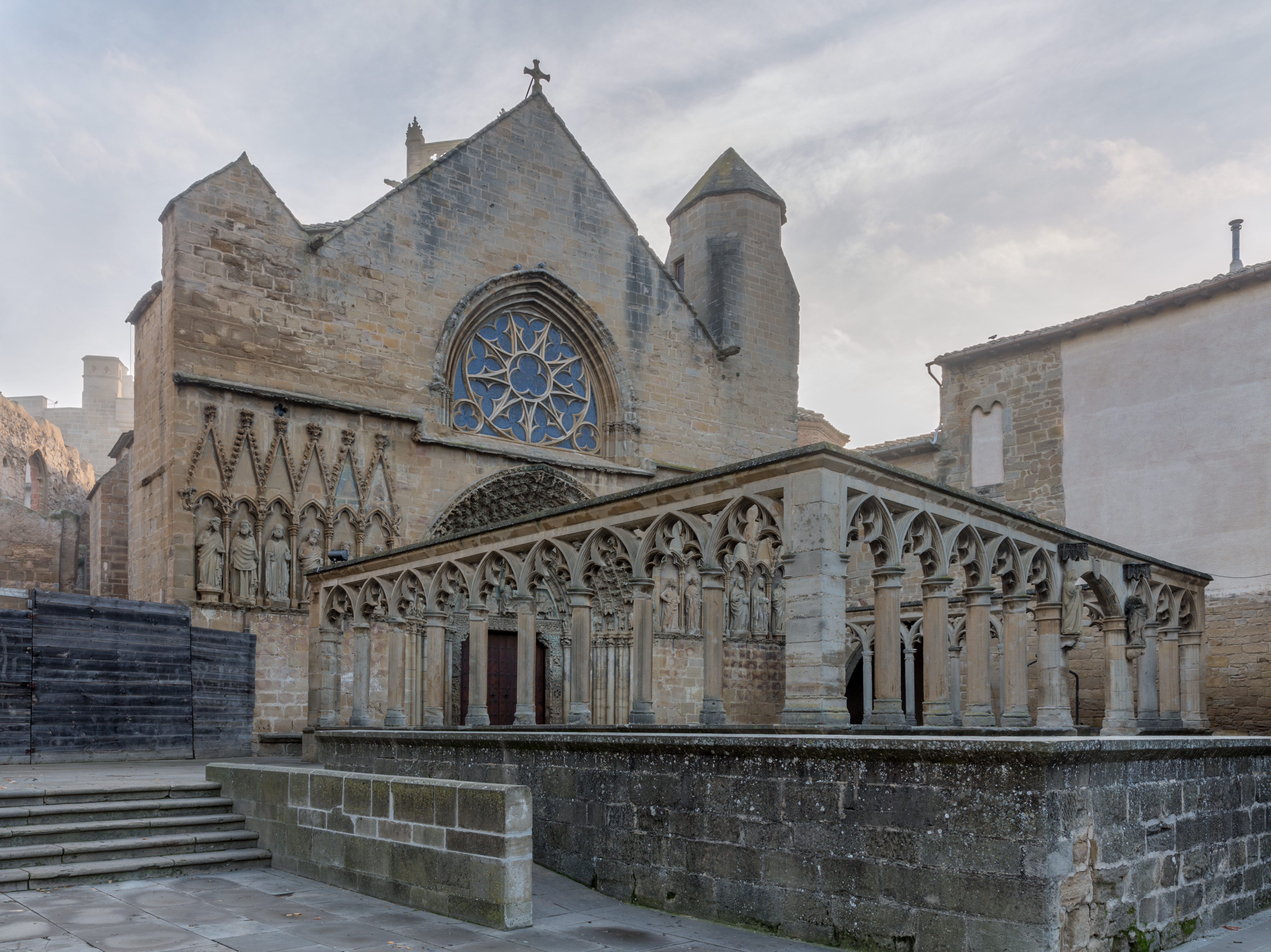 Church of Santa María la Real, Olite, Navarre, Spain